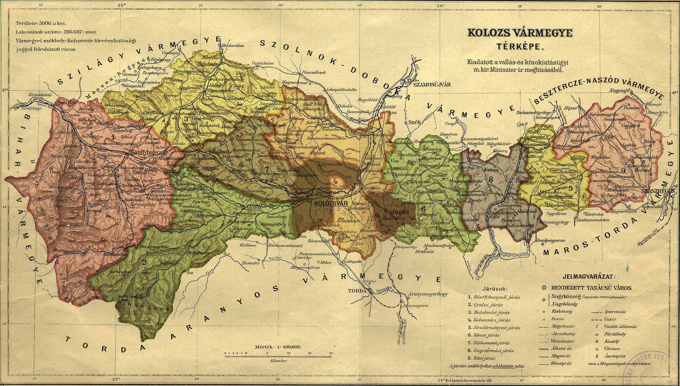 Administrative map of the county of Kolozs in the Kingdom of Hungary